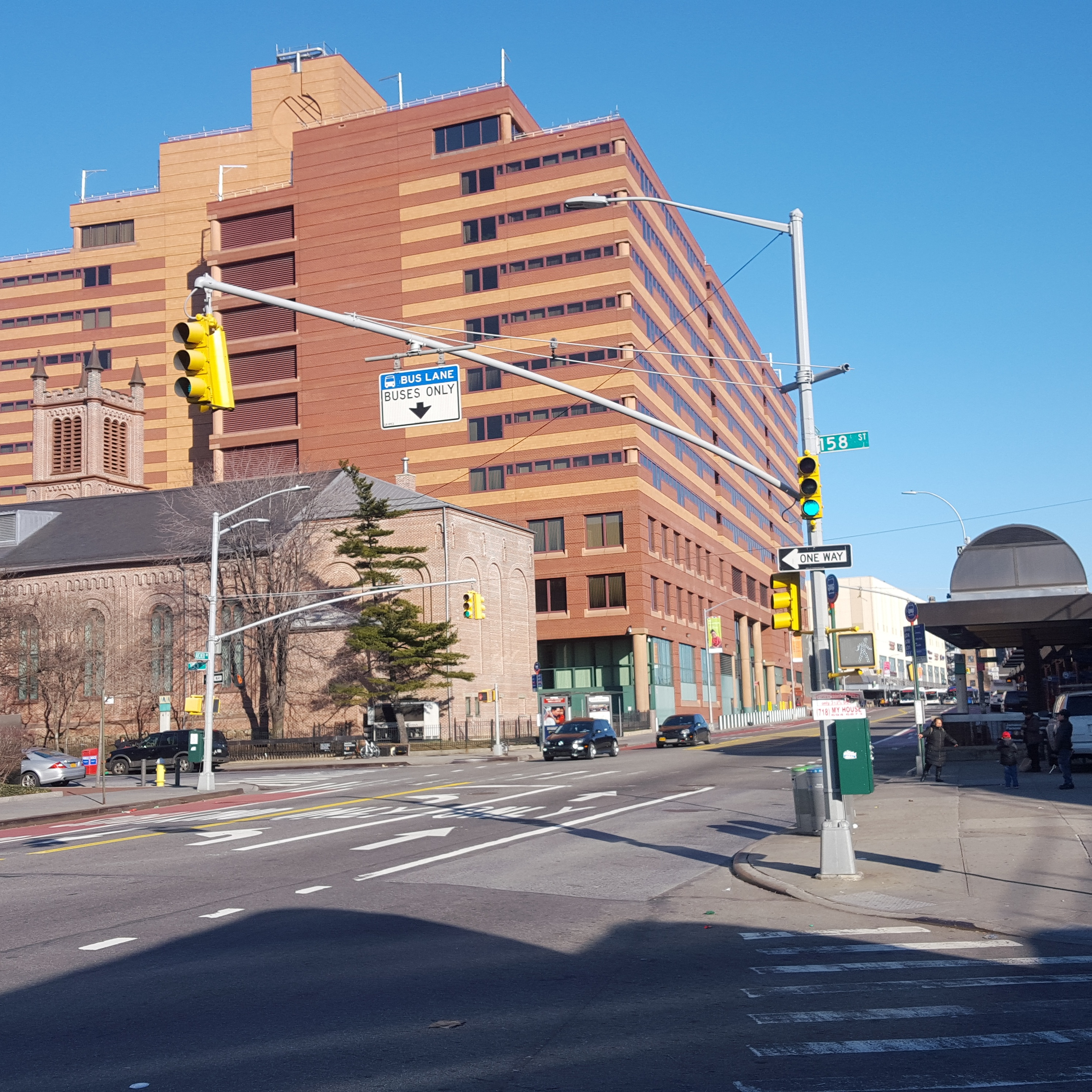 153rd st & Archer Ave looking east to Joseph Addabo Social Security Bldg